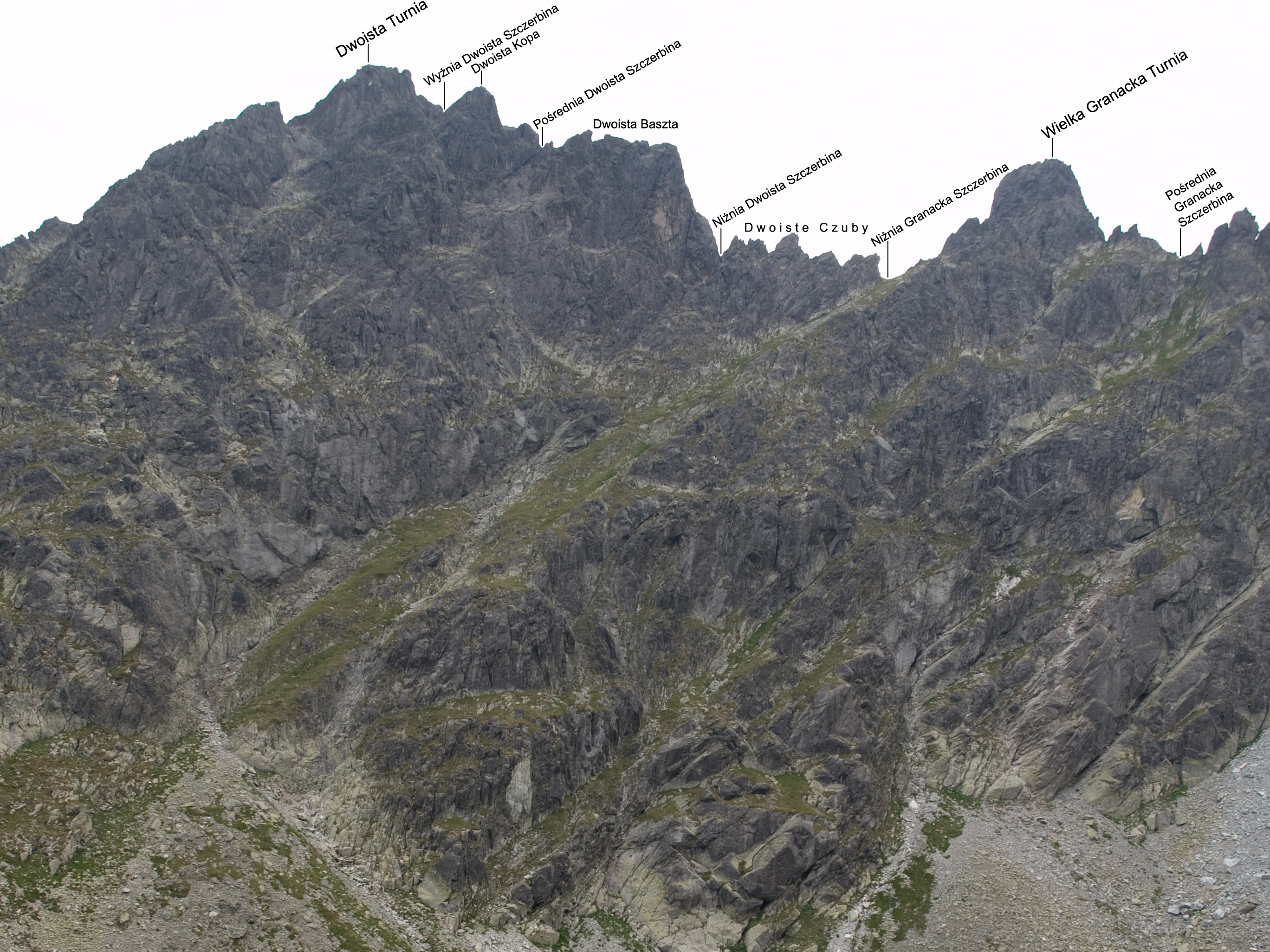 Velické Granáty, view from Slavkovská dolina.